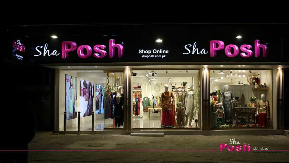 Sha Posh store in Rahim Yar Khan